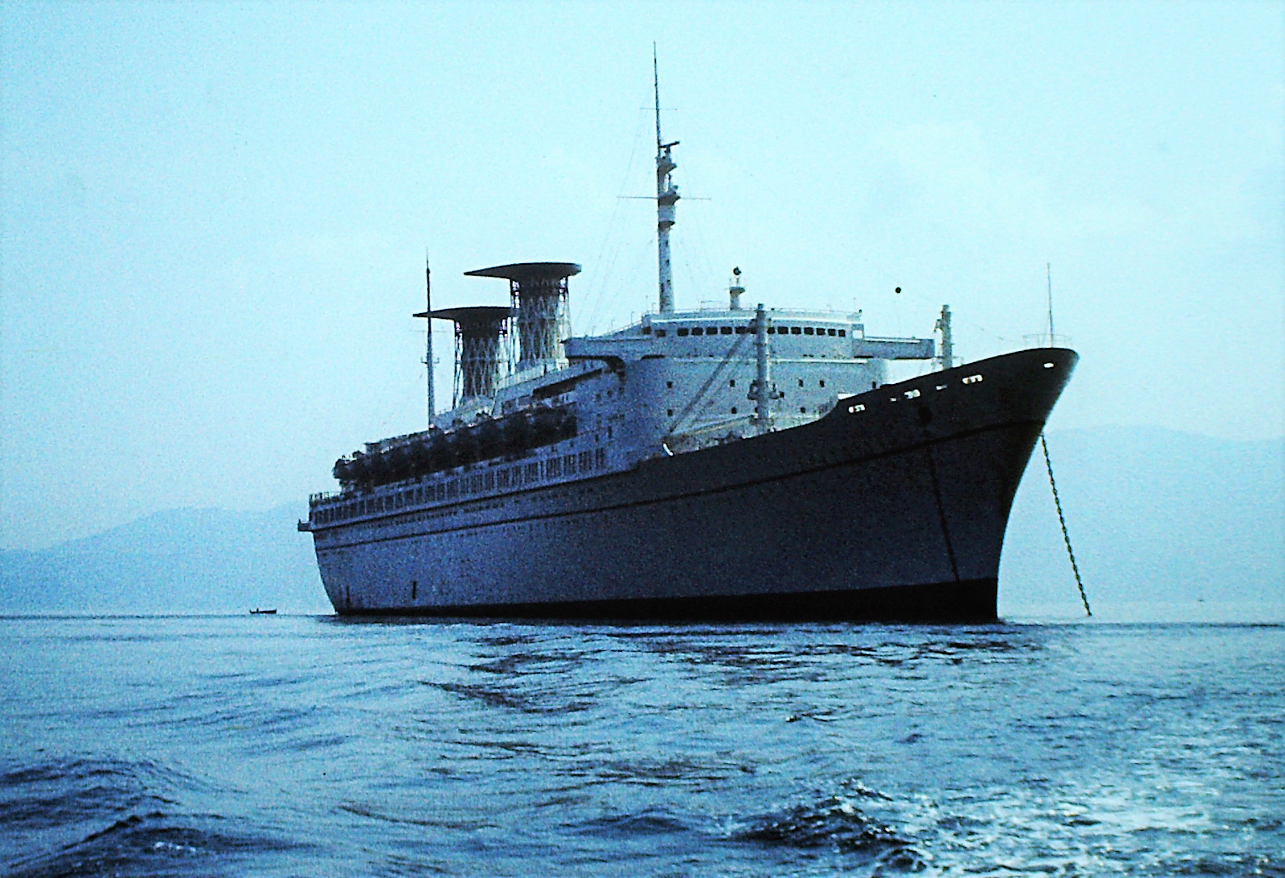 SS Raffaello of the Italian Line, 50,000 grt, built by Cantieri Riuniti dell'Adriatico, Trieste, launched 1963, completed 1965, laid up in the Bay of La Spezia, 06/76. She was bought by the Sha of Iran in 1976, badly damaged in the Iran Revolution in 1979, torpedoed in the Iran-Iraq War 1986, sinking in shallow water, and then later rammed by an Iranian cargo boat. Local divers then looted the hull, which apparently still exists. Scanned slide taken with a Canon AE-1 Program.